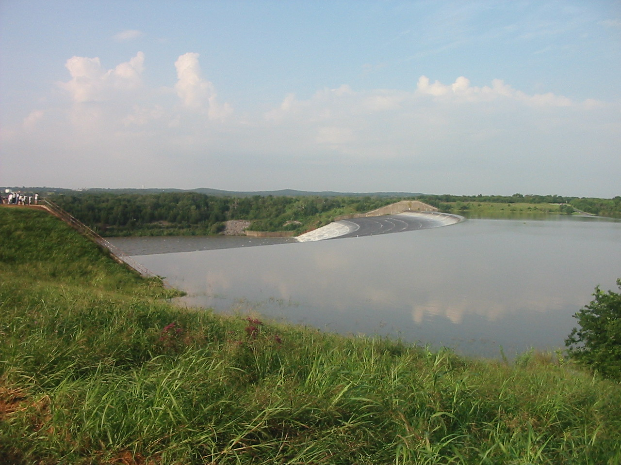 People at the overlook for the spillway at Lake Texoma. The lake is located on the Texas, Oklahoma border, USA.Herbert Smith 17:51, 4 August 2007 (UTC)